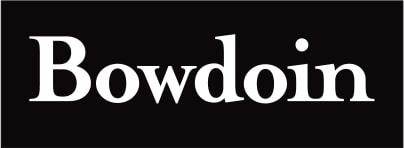 Bowdoin Wordmark